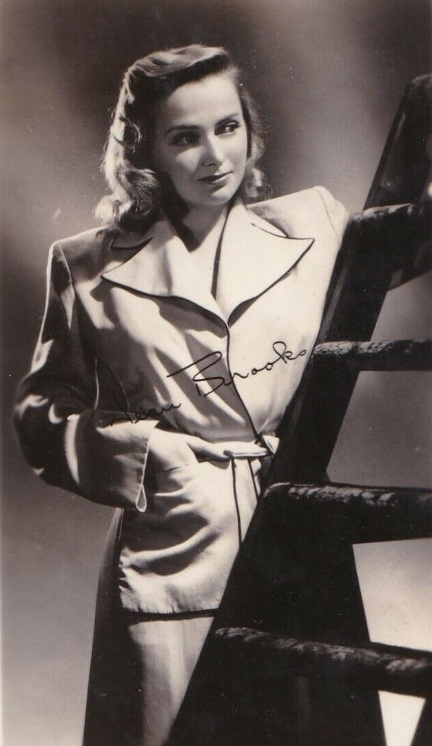 Photo of Jean Brooks c. 1940s